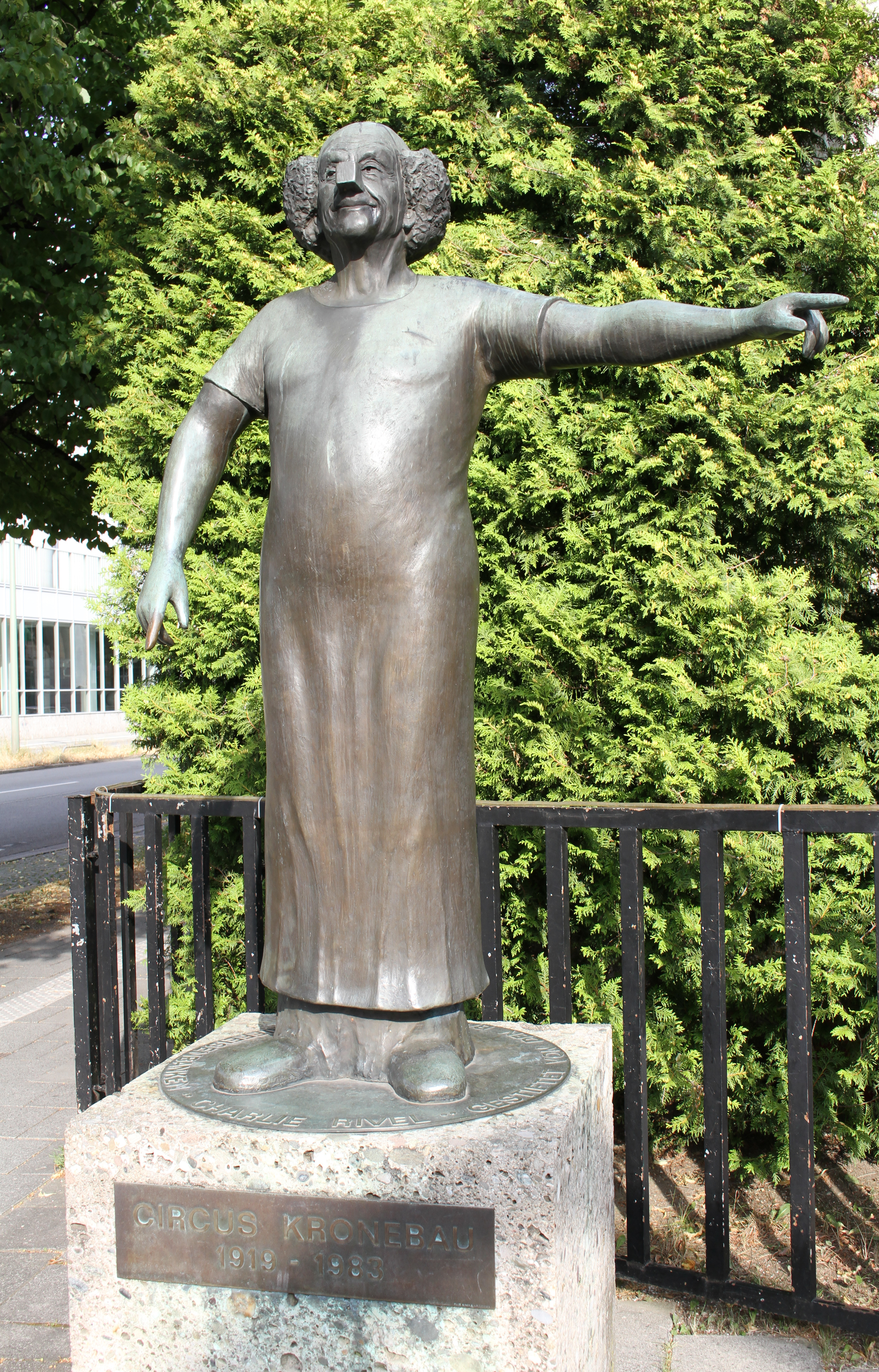 Statue of Charlie Rivel by sculptor Kurt Moser. The statue stands Munich, Germany, before the Cirkus Krone building